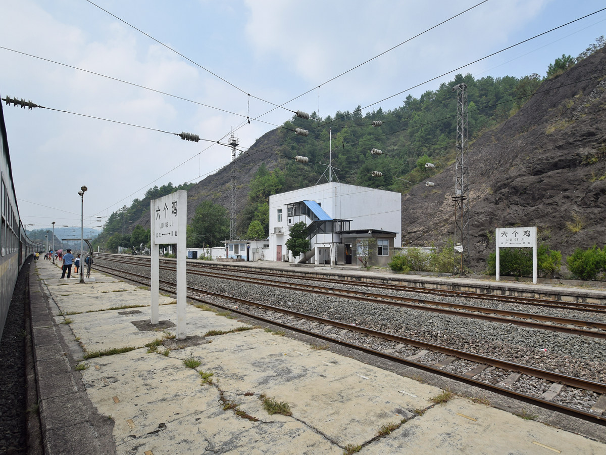 5639 Train was stopping at Liugeji Railway Station (literally: Six Chicken Railway Station)